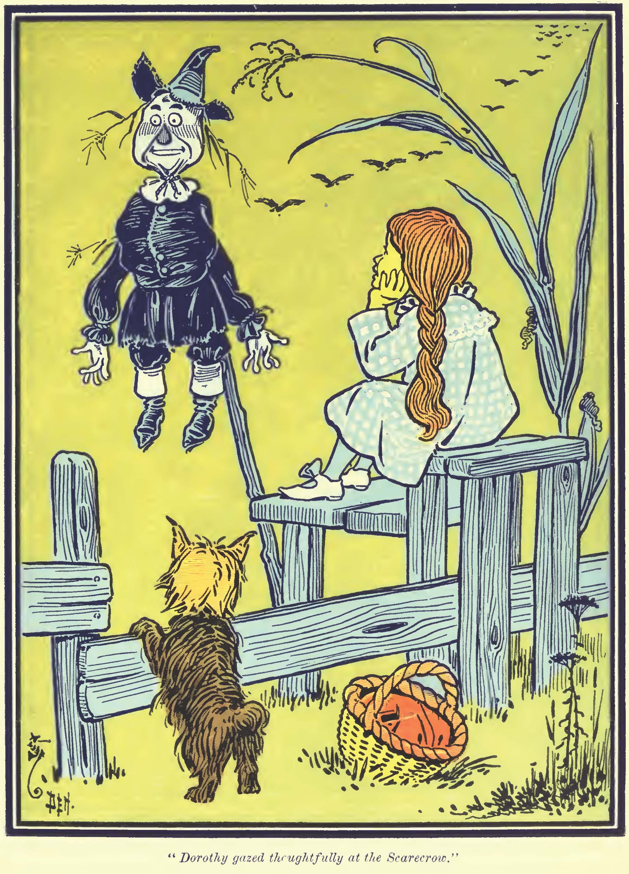 „Dorothy gazed thoughtfully at the Scarecrow“, Zeichnung von W. W. Denslow, 1900.